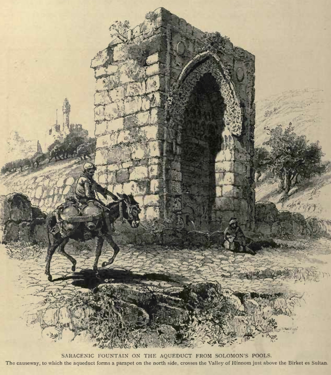 Jerusalem 1880